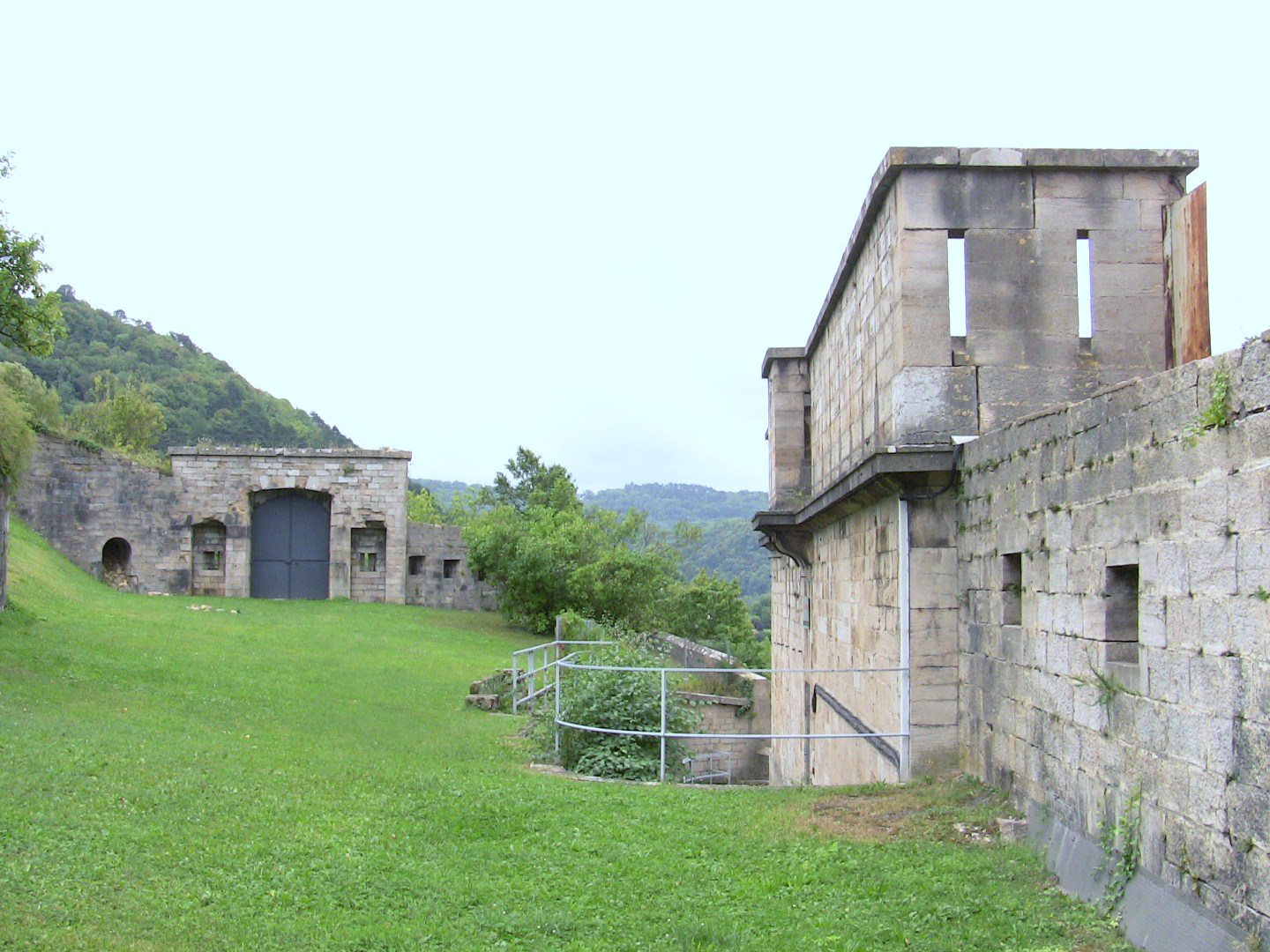 The fort of Beauregard, located in the area of Bregille, in Besançon (France)